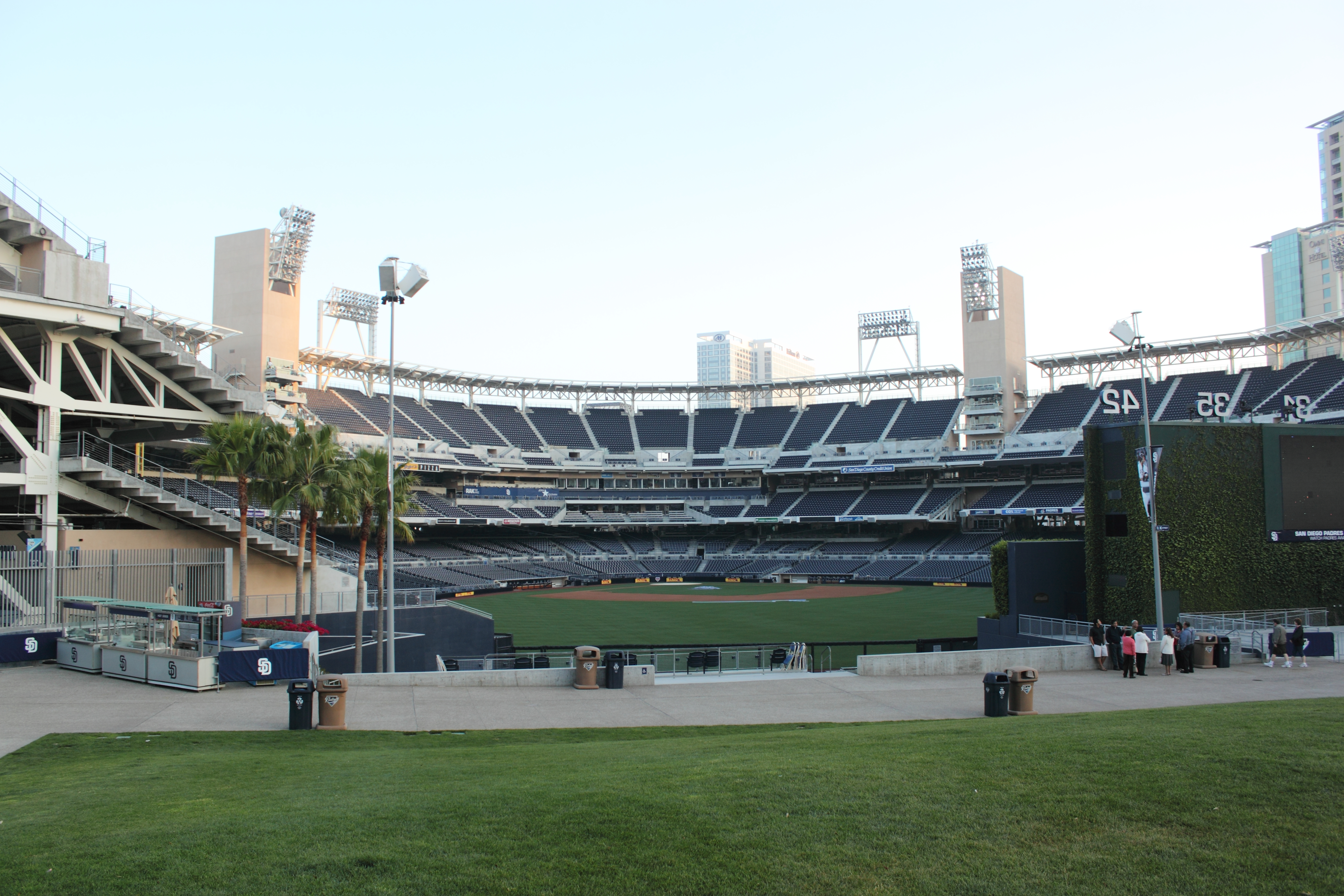 Petco Park looking in from the Park at the Park.